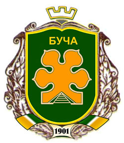 Coat of arms of Bucha.